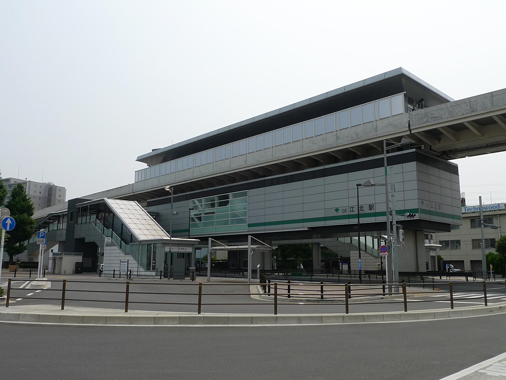 Kohoku station,Nippori-Toneri Liner.